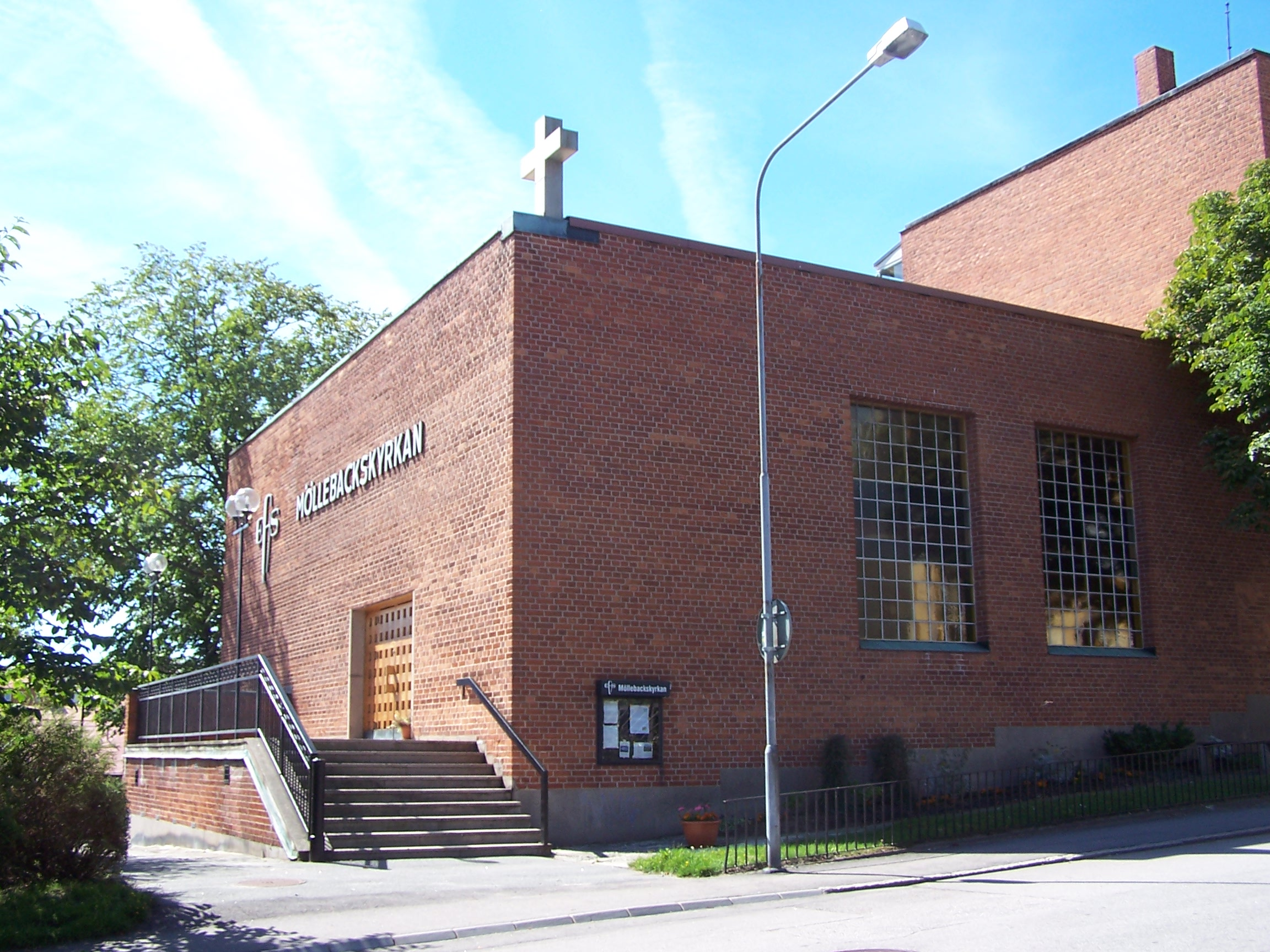 EFS Mölleback church, Karlskrona, Sweden.